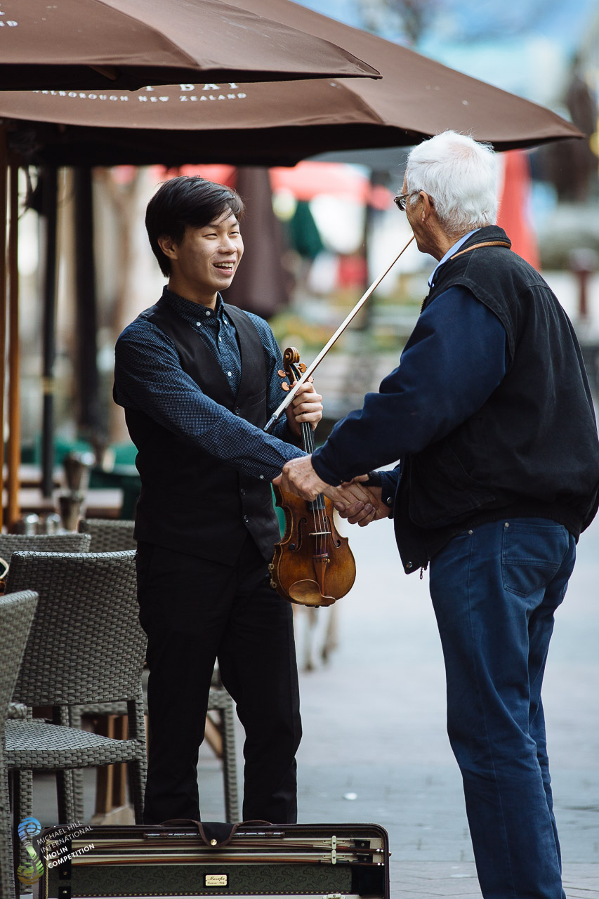 Timothy Chooi greeted on the streets of Auckland, New Zealand.